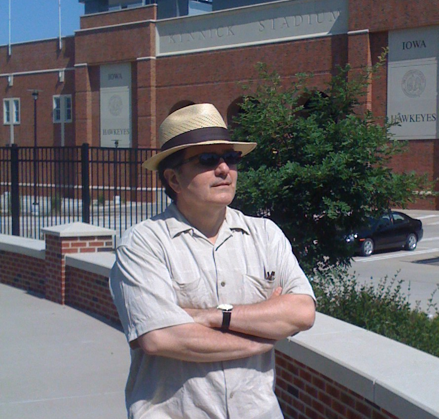 Roberto Ampuero standing outside Kinnick Stadium in Iowa City, Iowa, USA on July 4, 2008.